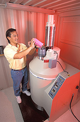 Technician preparing to irradiate Melon fly larvae